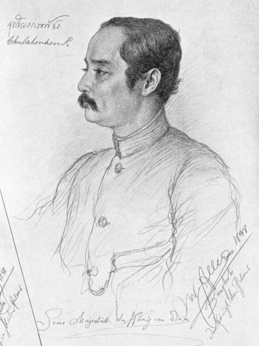 Portrait of Phra Maha Chulalongkorn (Rama V.), King of Siam, by C.W.Allers